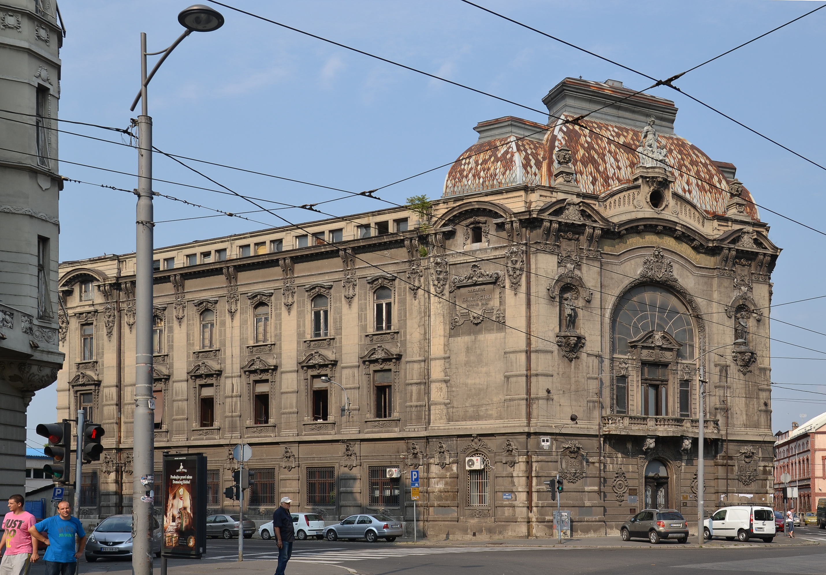 The building of Belgrade Cooperative, Belgrade, Serbia